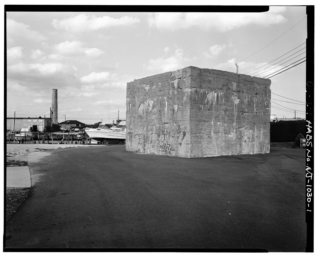 The Tuckerton Wireless, constructed in 1912, was a 862 foot guyed mast of that was used in early shore to ship communications, demolished in 1955. The concrete footings remain